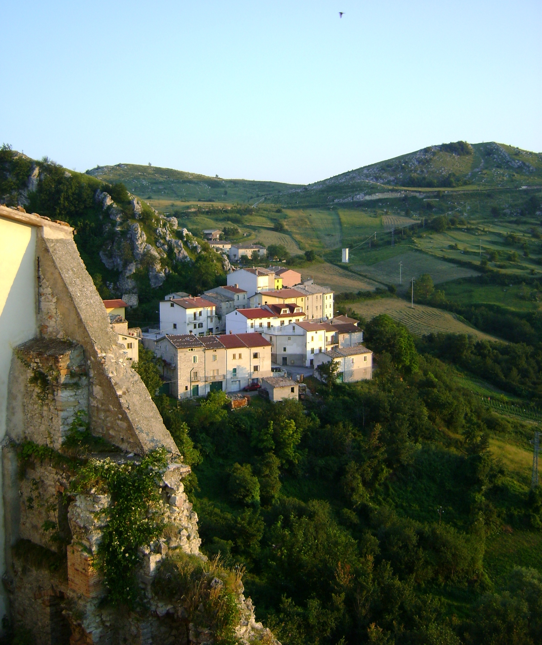 Panorama from Montenerodomo, province of Chieti, Abruzzo, Italy